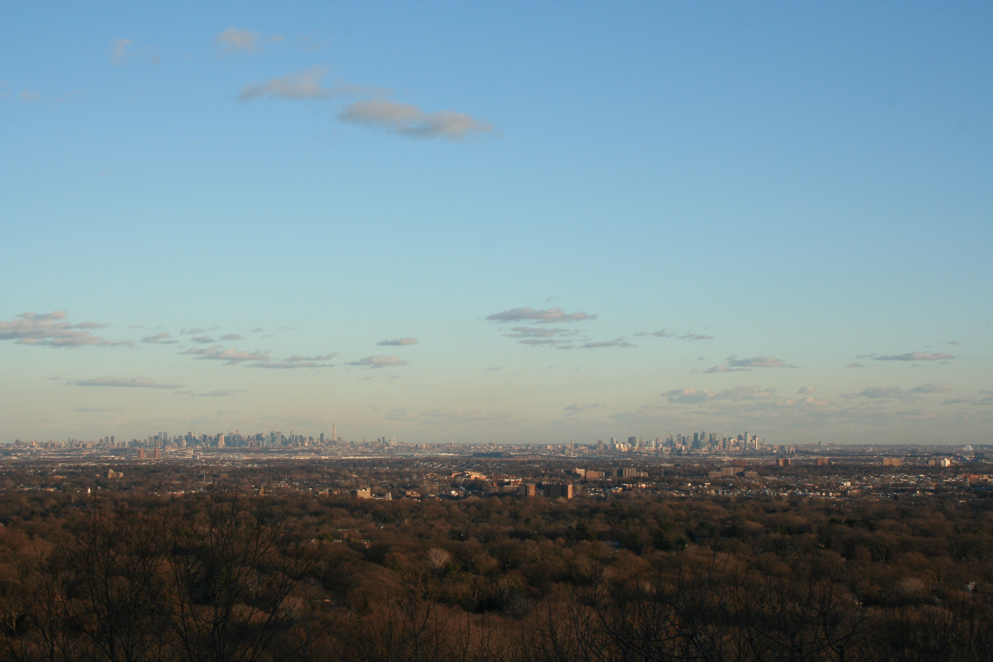 View of the New York City skyline from Eagle Rock Reservation in West Orange, NJ.